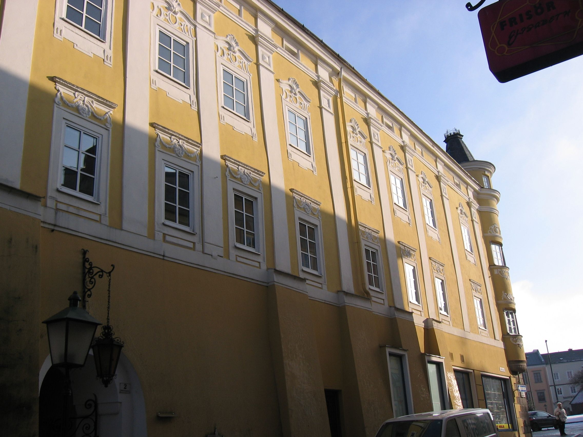 Böhmergasse in Freistadt